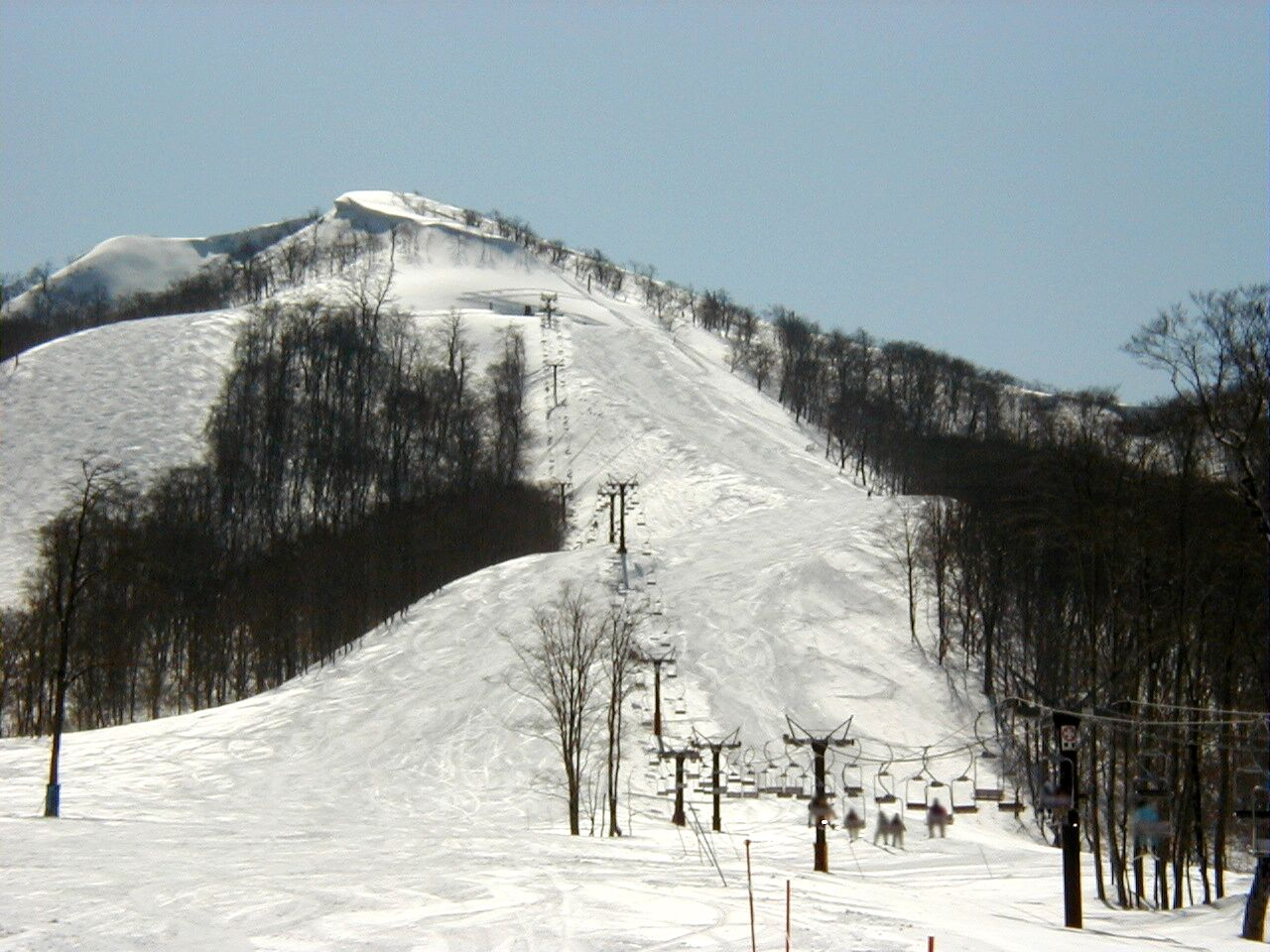 La Futée course at the Urabandai Nekoma Snow Park & Resort in Fukushima Prefecture, Japan